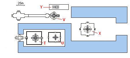 Plan of Preah Pithu temples, Angkor, Cambodia